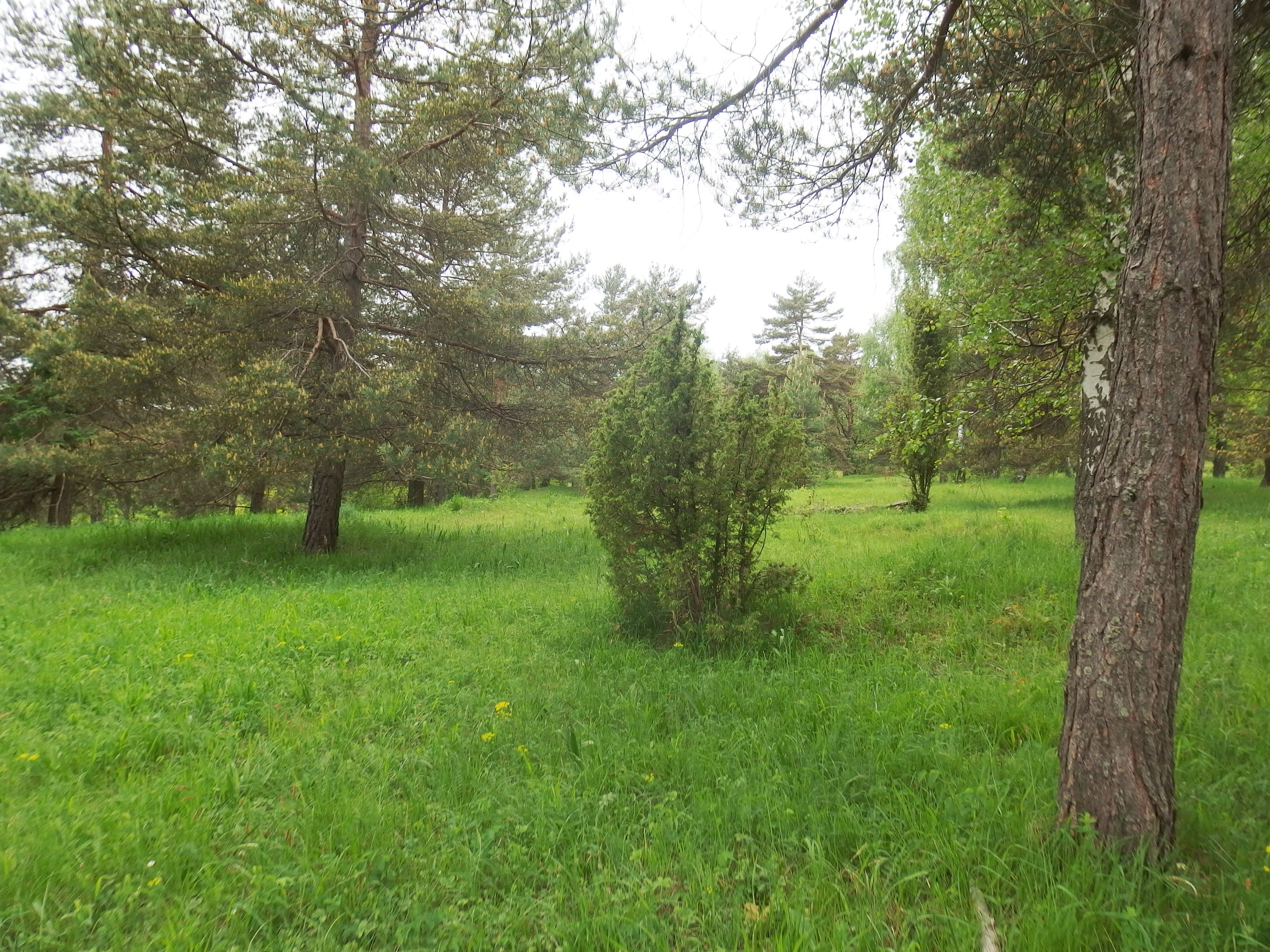 Cestiska, natural monument in Uherské Hradiště District, Czech Republic.